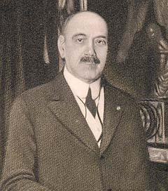 Cornelius Amory Pugsley circa 1900-1910. Low res, dead in Cornelius Amory Pugsley and Pugsley Medal